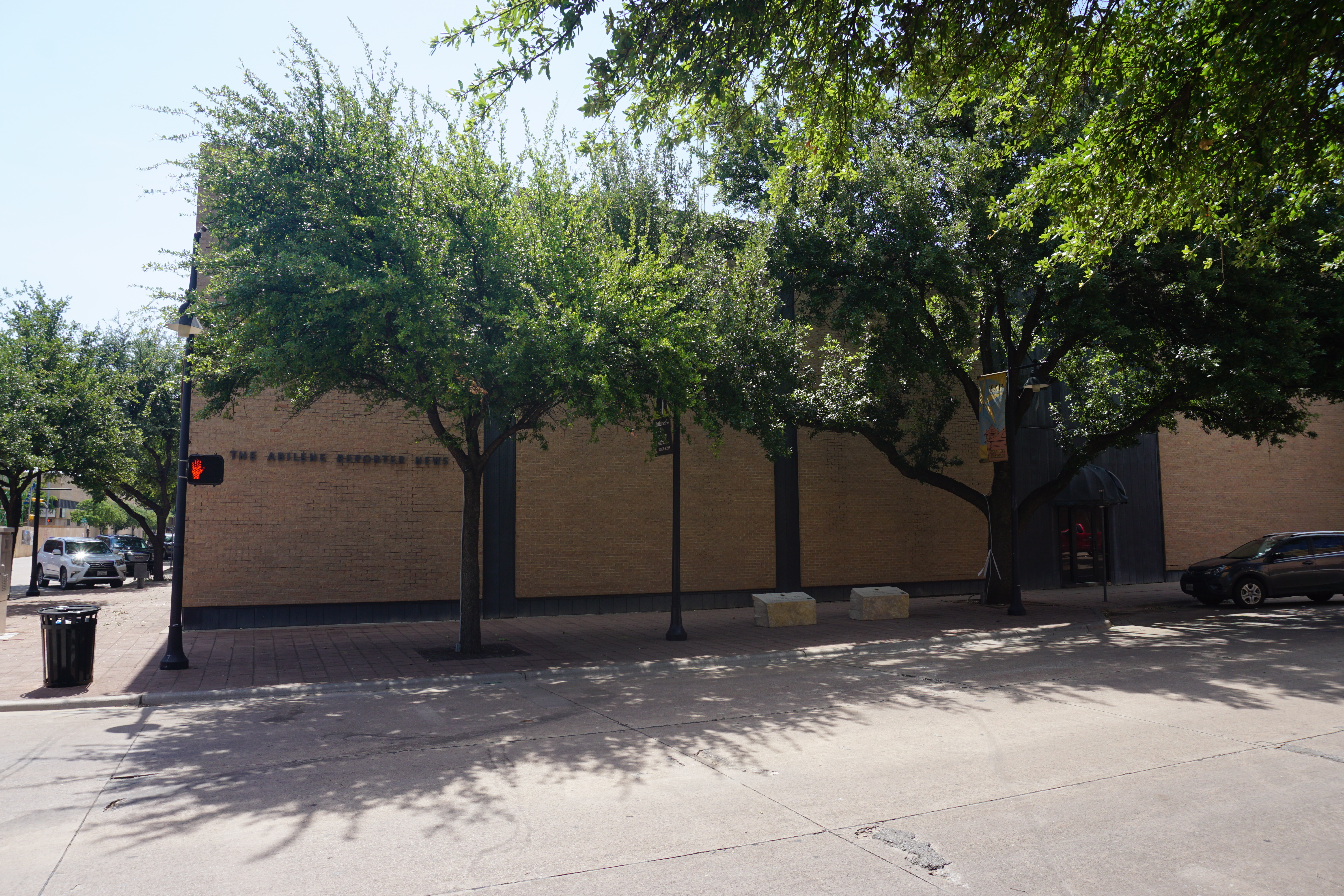 The Abilene Reporter-News building in Abilene, Texas (United States).